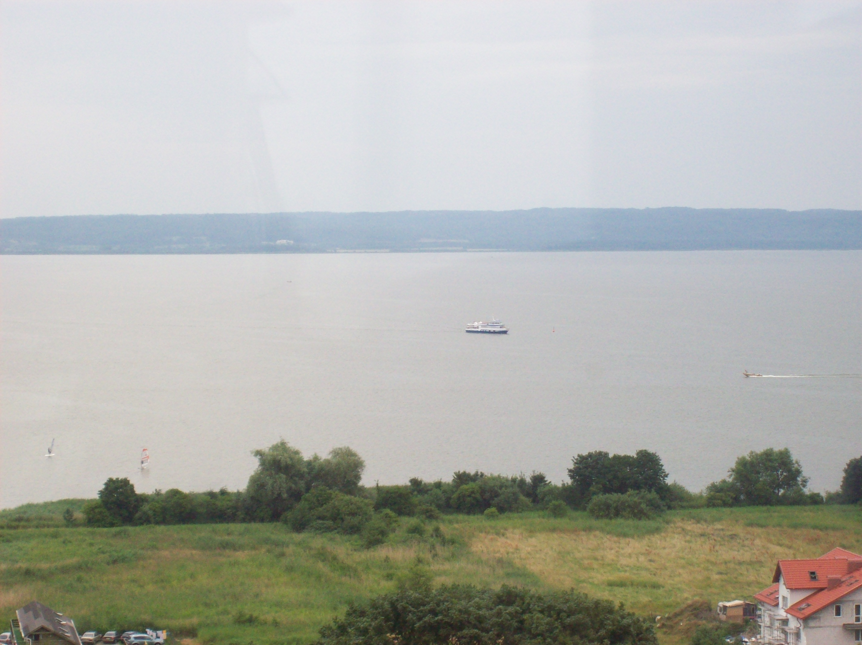 Vistula lagoon, view from the Krynica Morska lighthouse